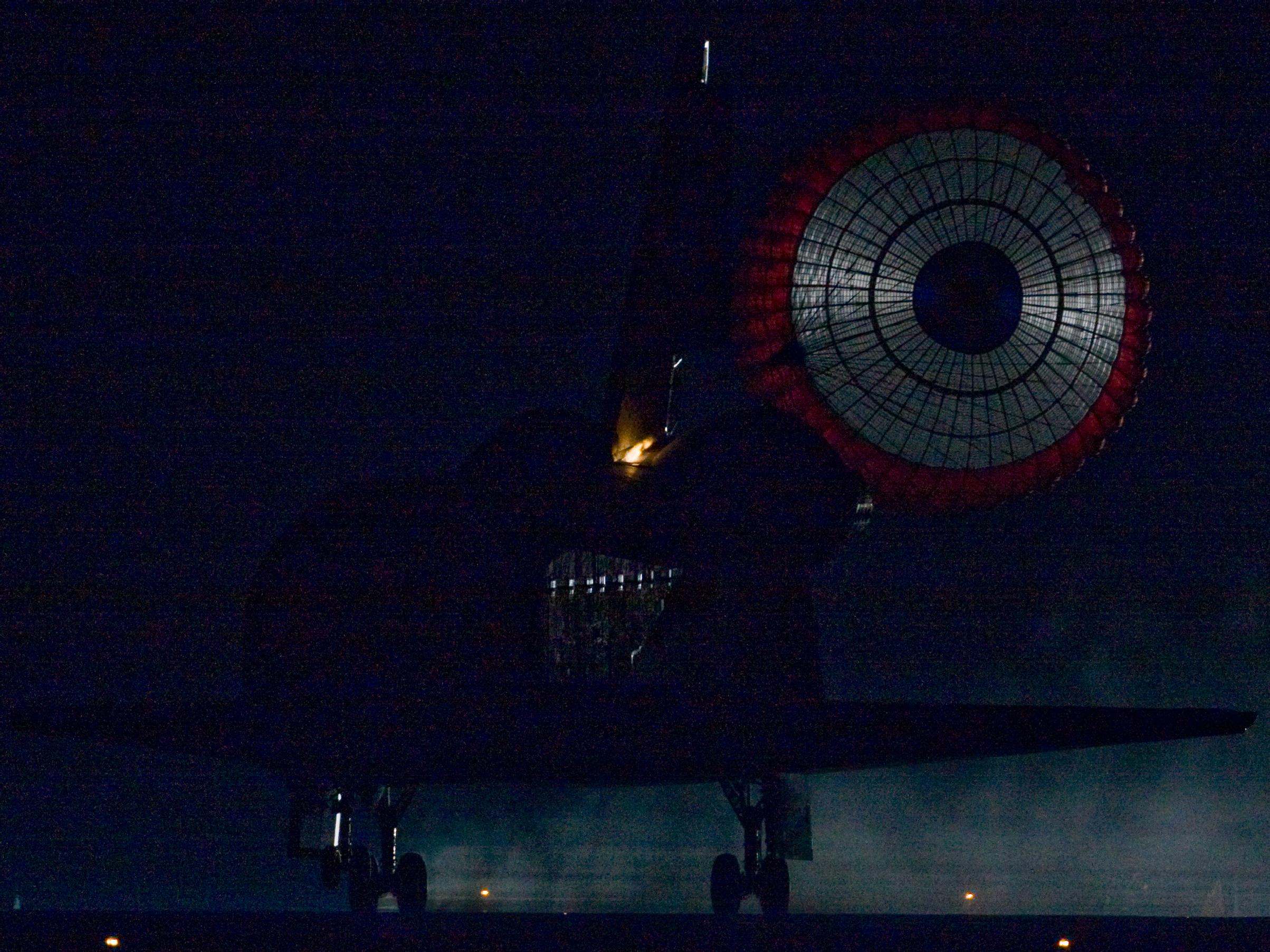 Space shuttle Endeavour's drag chute unfurls in a kaleidoscope of color as the orbiter lands in darkness on Runway 15 at NASA Kennedy Space Center's Shuttle Landing Facility to end the STS-123 mission, a 16-day flight to the International Space Station.